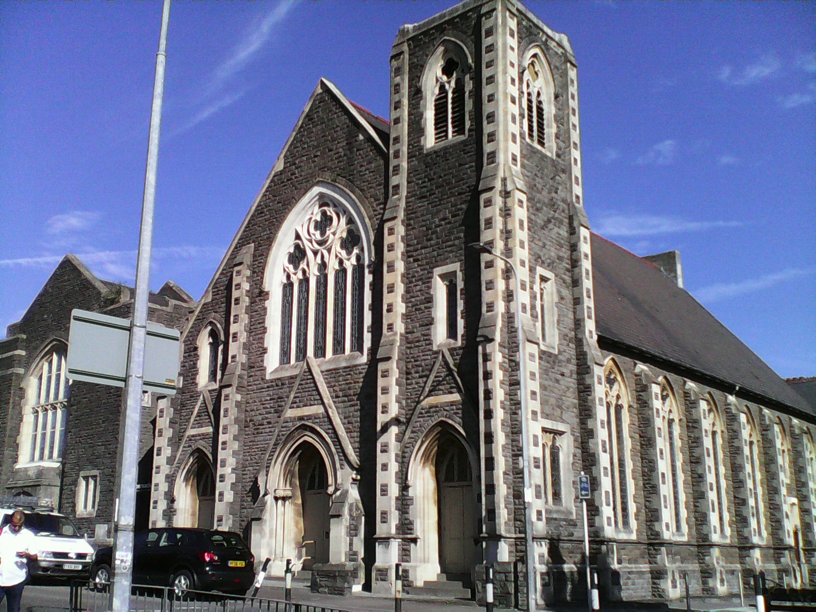 Tabernacle Roath church building, 2018